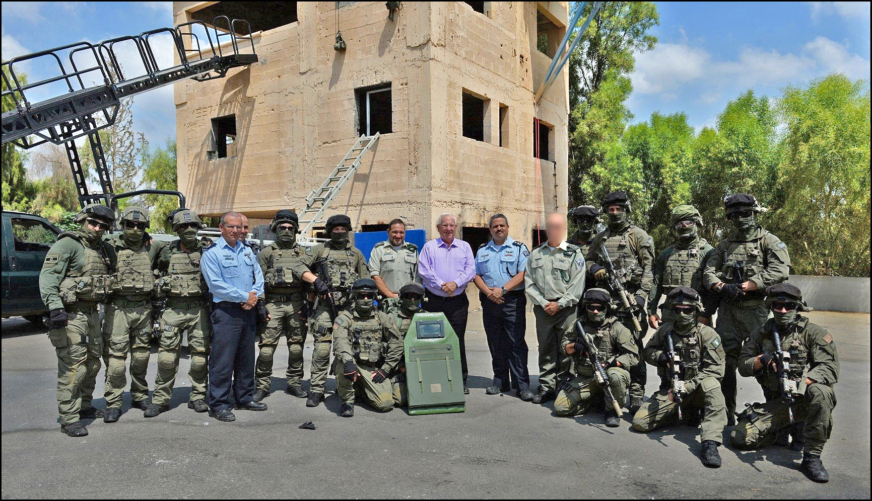 YAMAM - Israeli elite counter-terrorism unit